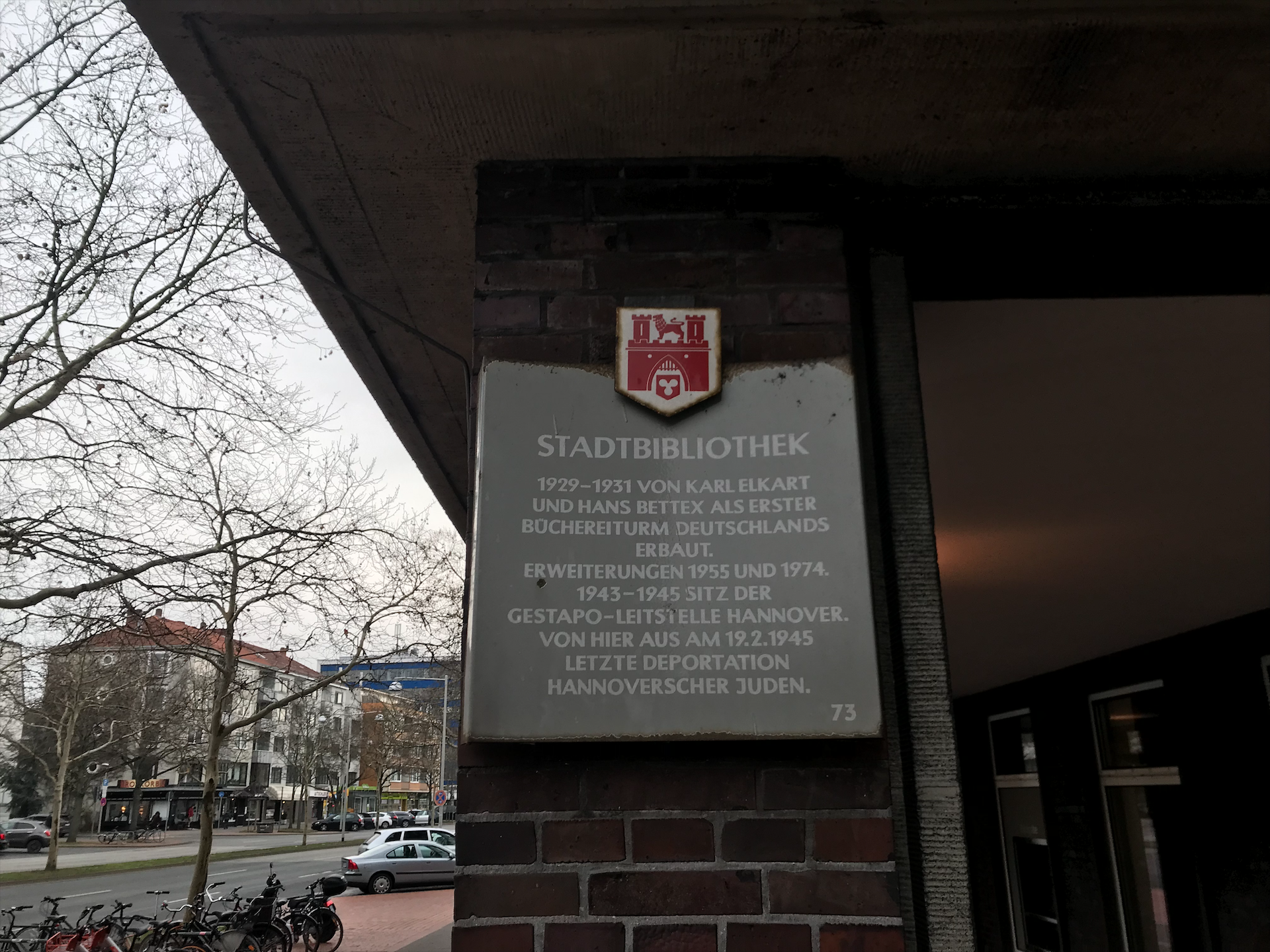 Plaque at the main entrance of the city library in Hannover. Inscription (literal translation): 1929-1931 built by Karl Eckart and Hans Bettex as the first book tower in Germany. Extensions 1955 and 1974. 1943-1945 Seat of the Gestapo-Leitstelle Hannover. From here on 19.2.1945 last deportation of Hannoverscher Jews.